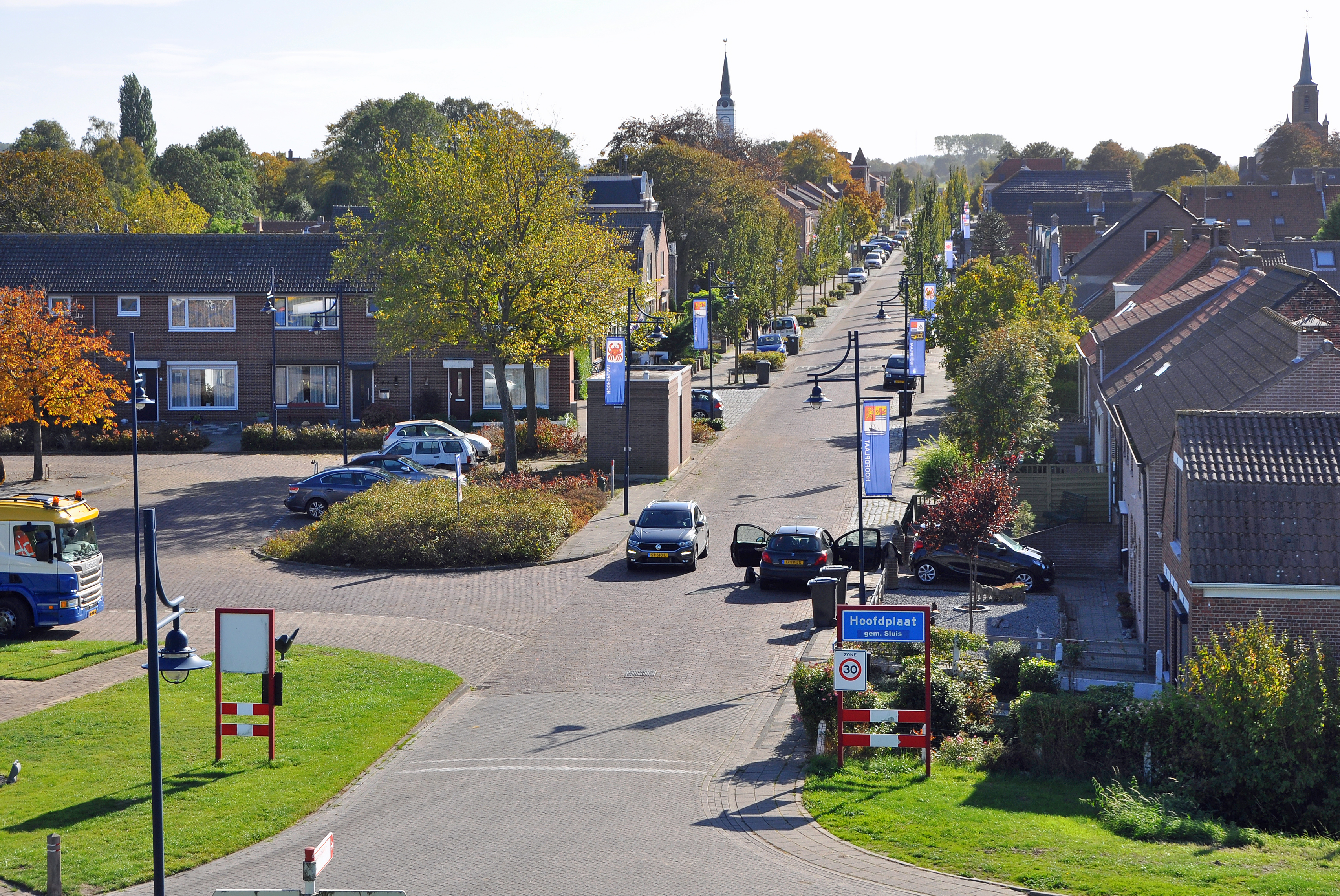 Hoofdplaat (municipality of Sluis, Netherlands): Havenstraat (Harbour street)